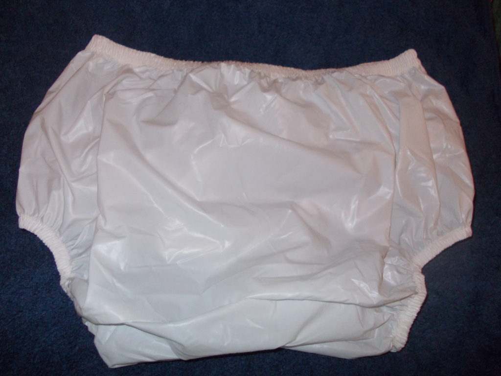 Plastic Pants (PVC) suitable for bedwetting in larger child Traditional but comfortable protection for wearing cloth nappies. Lower cost solution than disposable bedwetter pants. Now available on UK ebay with matching terry squares, and booster inserts Suit waist size 23" - 31" Leg cuff size (measure around top of leg) 18" maximum .